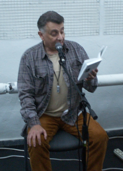 Mark Freidkin, Russian bard